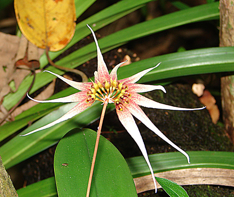 The Tapering Bulbophyllum is native to Sumatra, Borneo and Malaysia. Photo from Tenom Orchid Center, Sabah, Borneo.